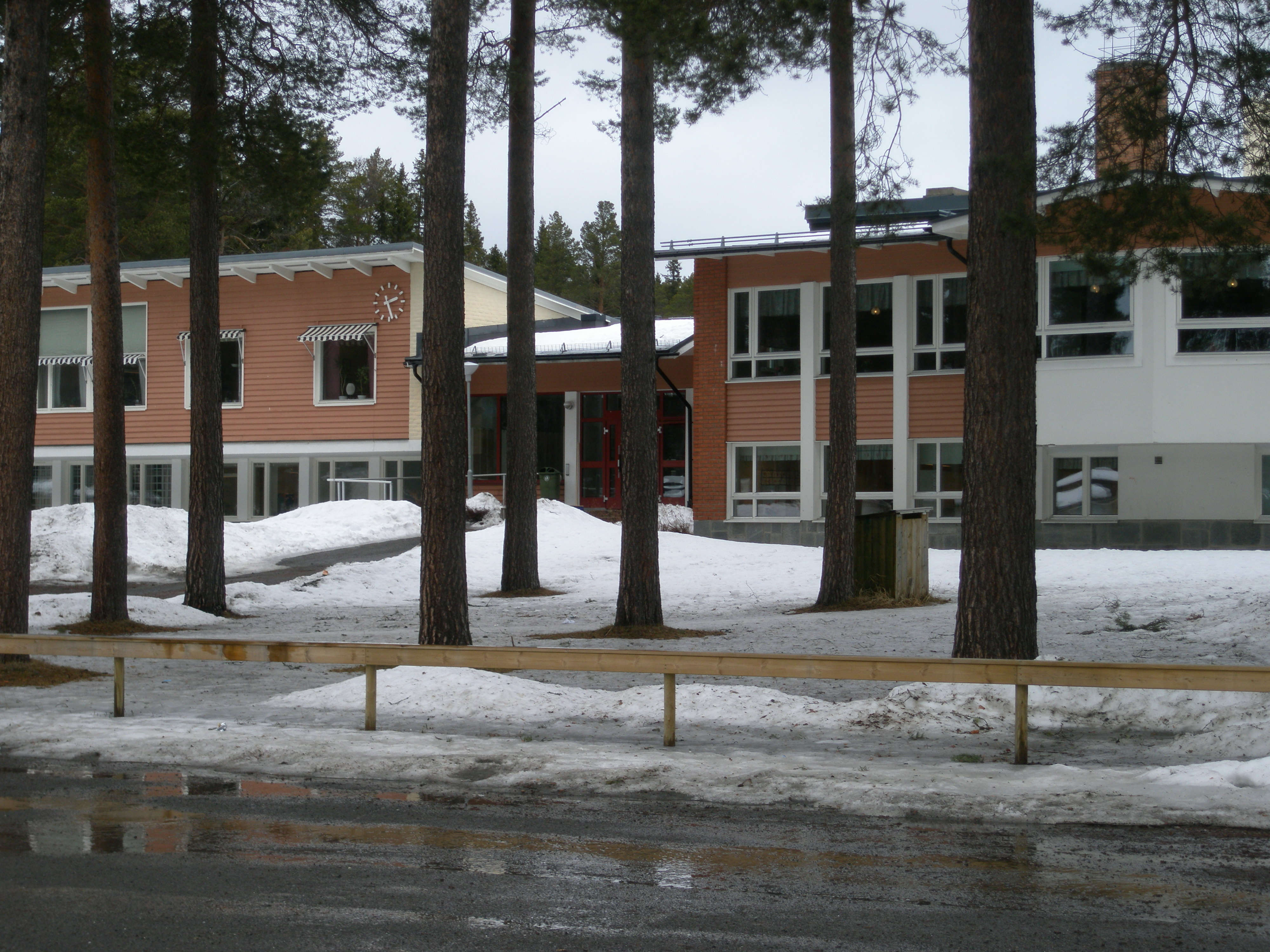 Änge, Offerdal, Krokom, Jämtland, Sweden.